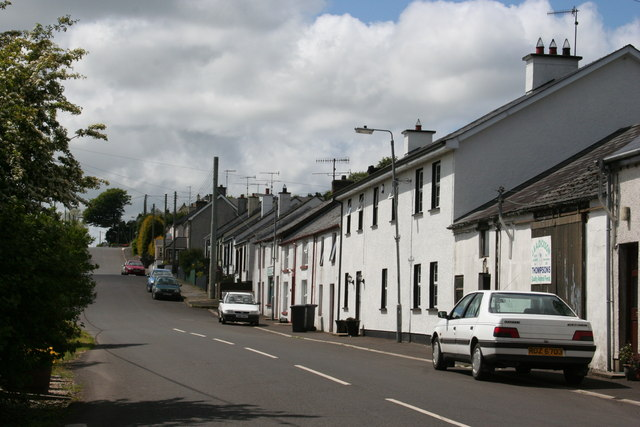 Newtowncrommelin, near to Newtown Crommelin, Ireland. This small village was once the heart of the Antrim iron smelting industry.